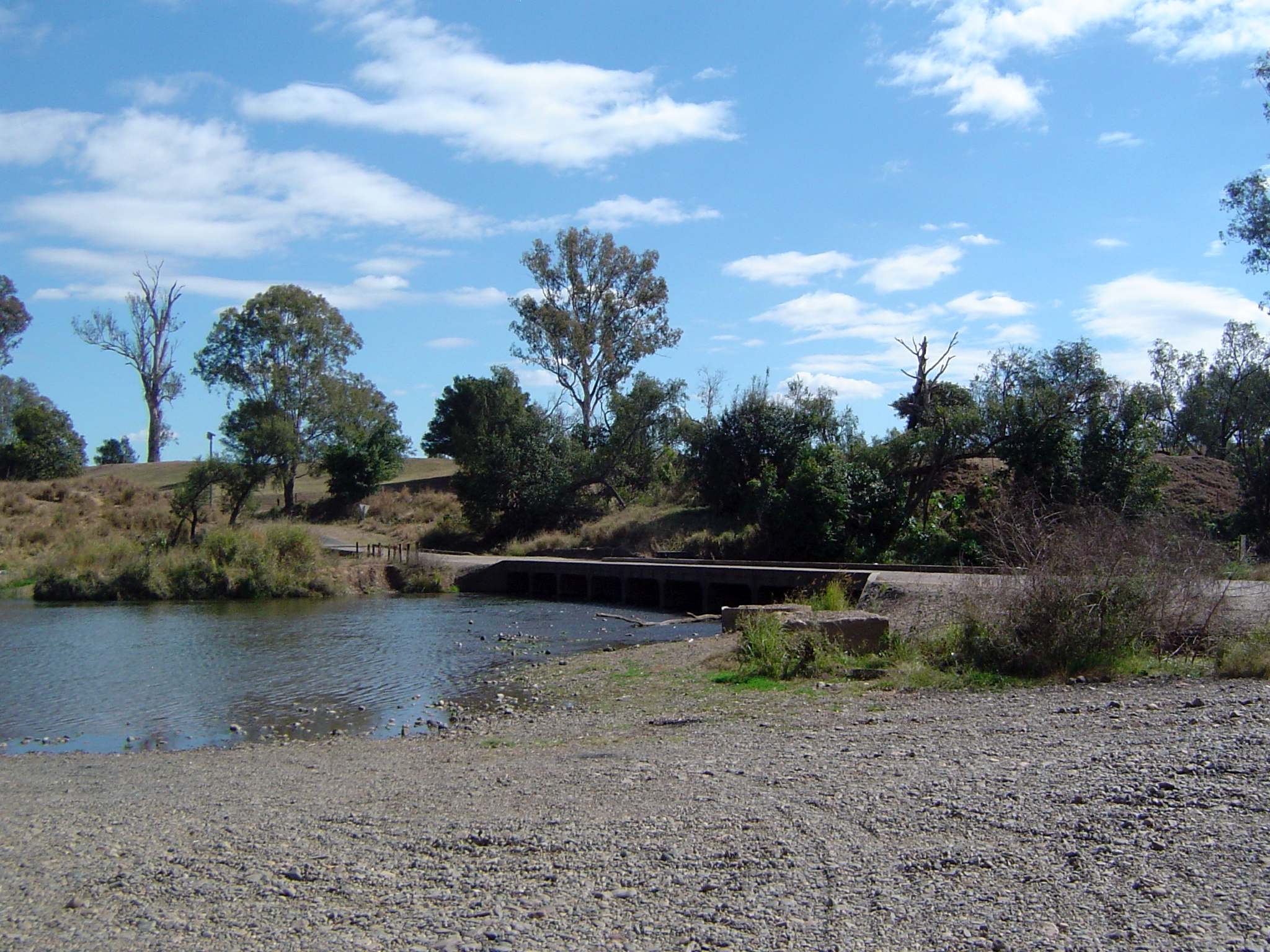 Photo of Wivenhoe Pocket Road crossing at Fernvale, Somerset Region, Queensland, Australia.